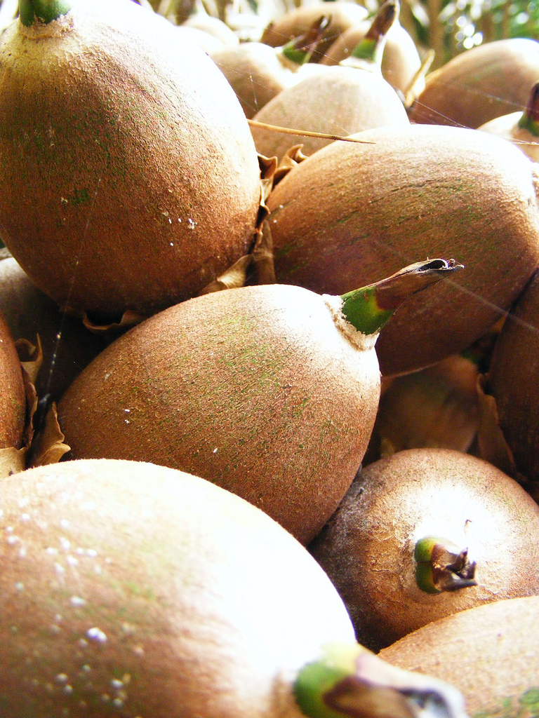 Up close and personal with the fruit of the breadnut tree. San Ignacio (Caracol)- Belize